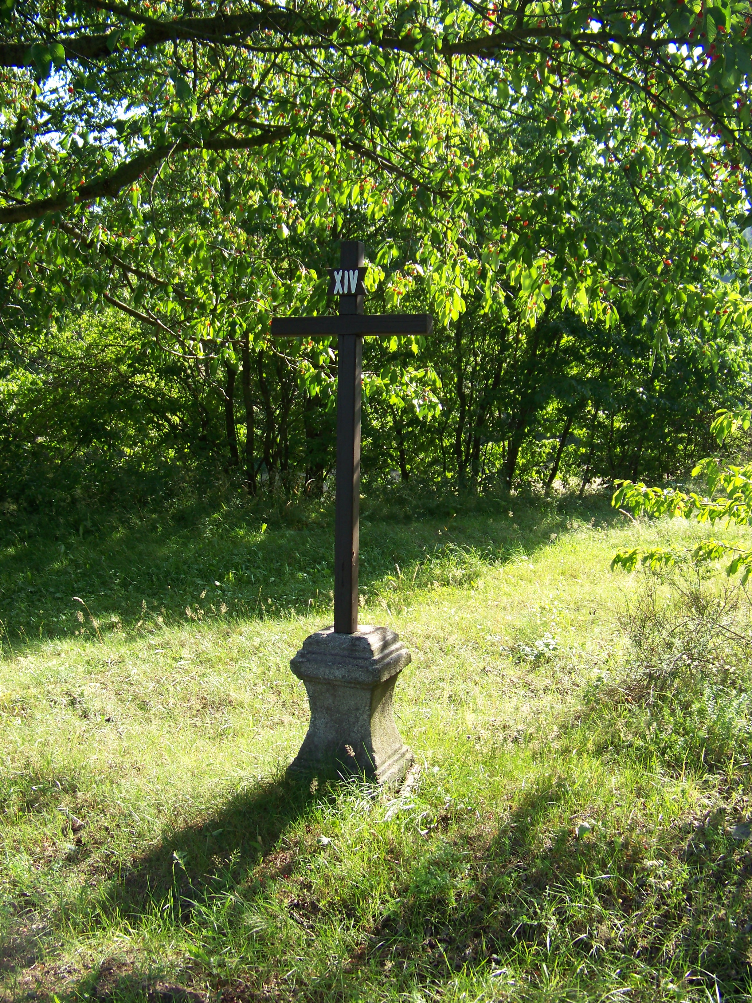 Milín-Stěžov, Příbram District, Central Bohemian Region, the Czech Republic. A cross near the Na Pelechu forester's lodge.